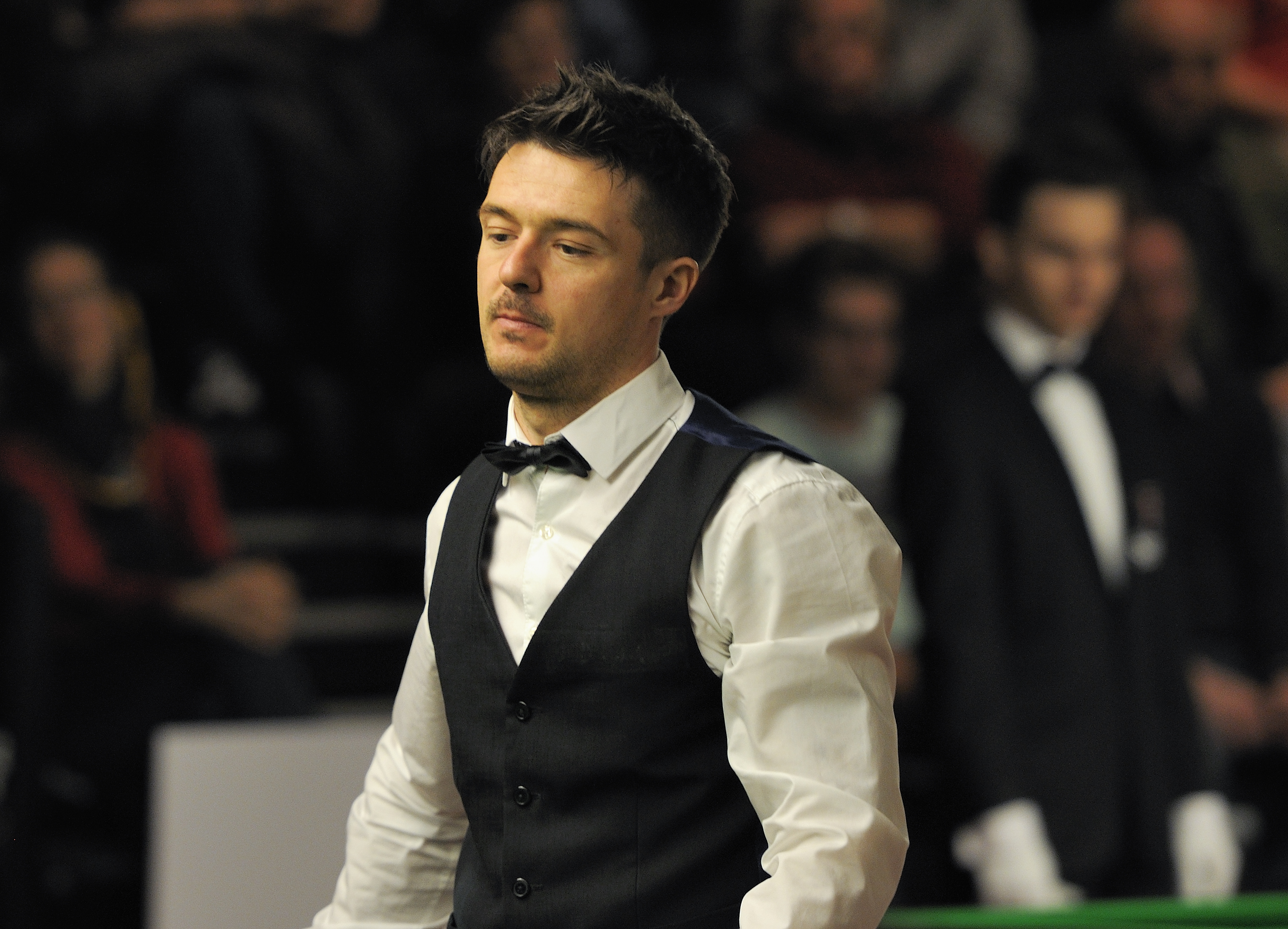 Picture taken in Berlin during the Snooker German Masters in 2014. Michael Holt.